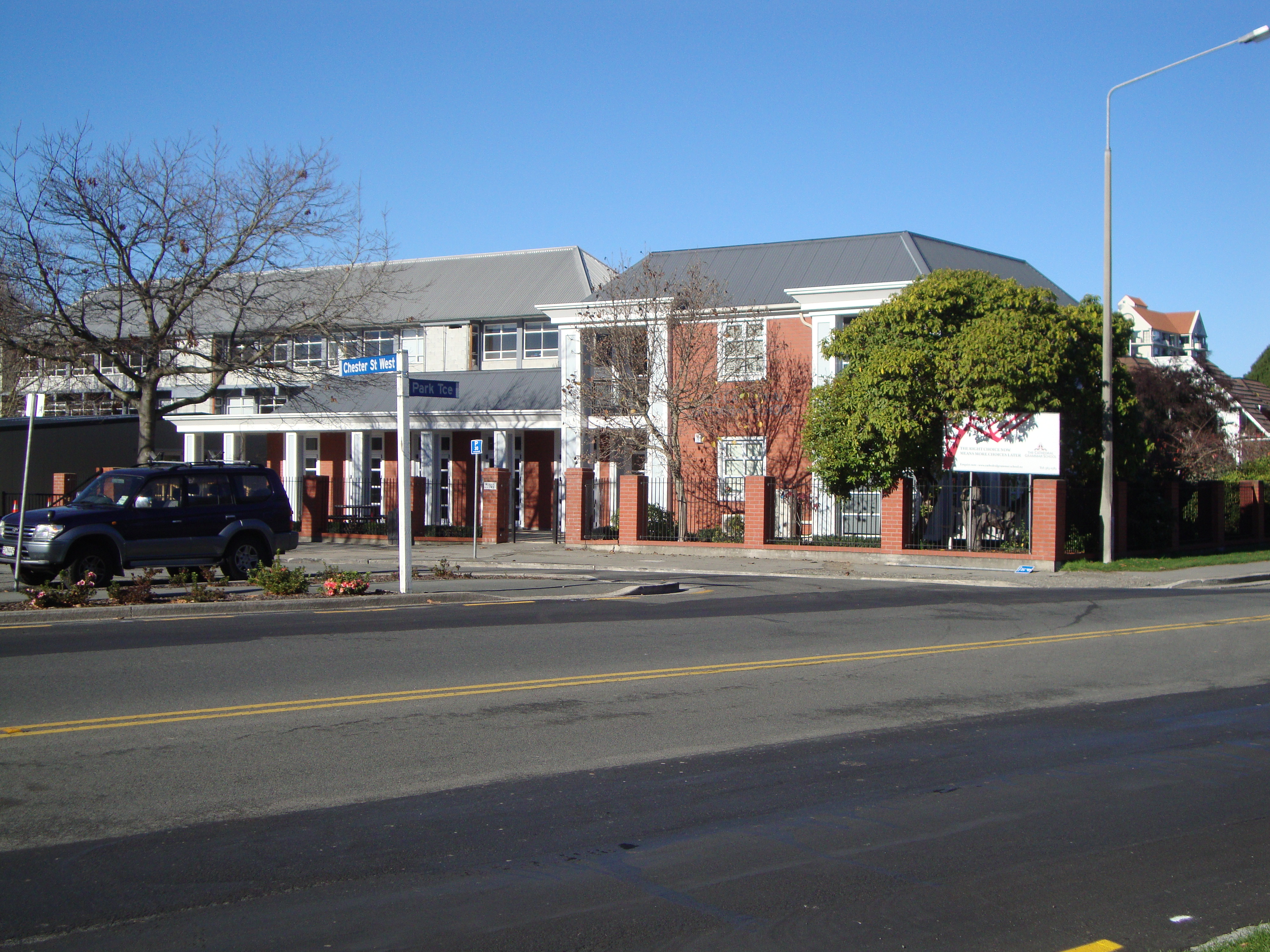 School buildings of Cathedral Grammar.